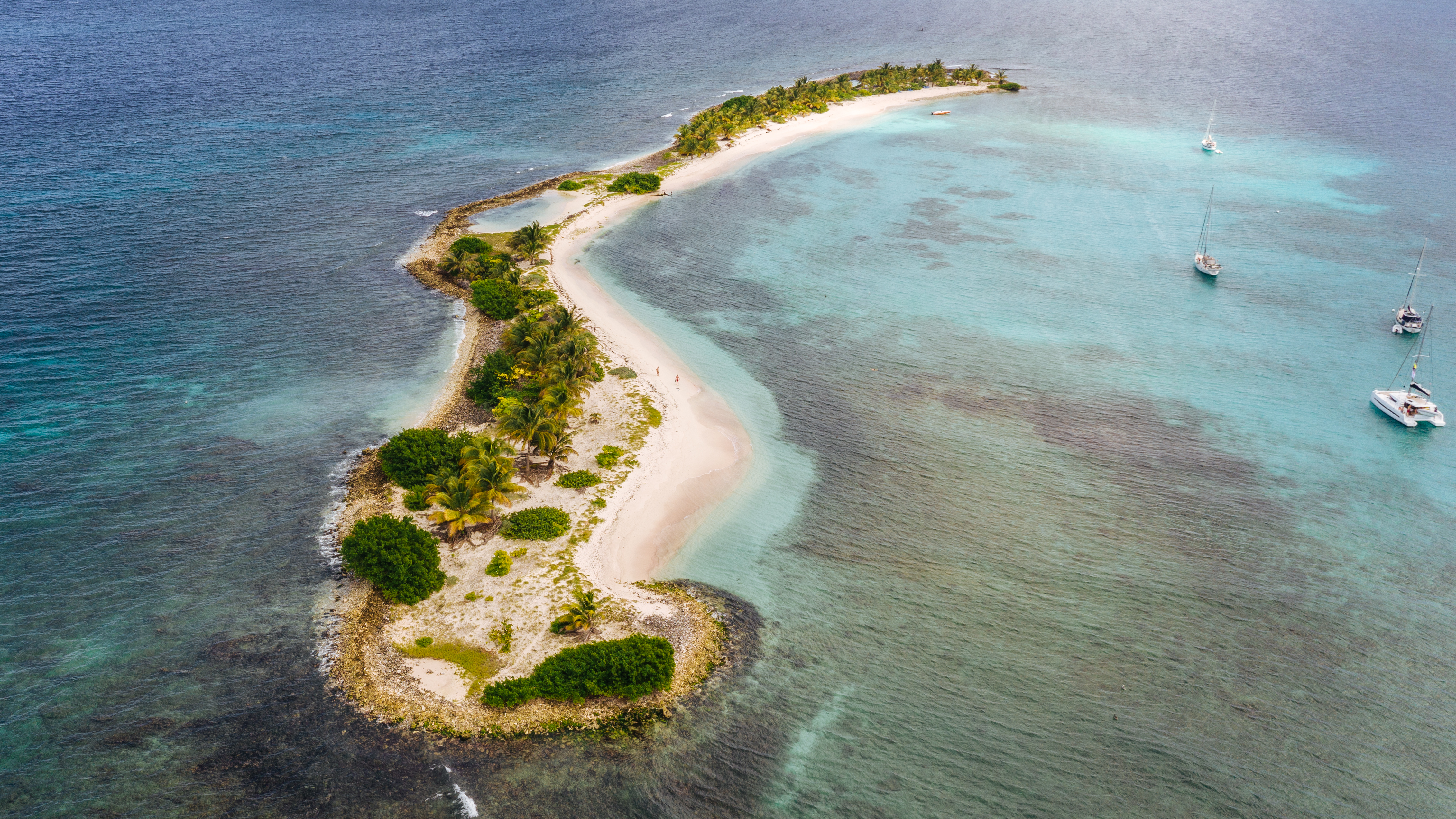 Area view of Sandy Island (Carriacou)